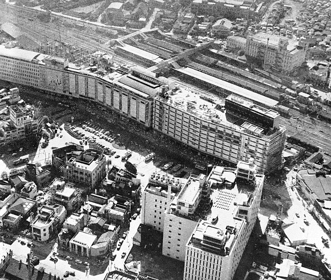 View of Ikebukuro circa 1960